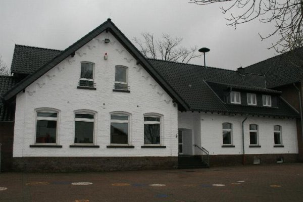 Cultural heritage monument No. 40 in Selfkant